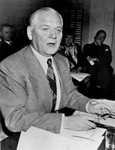 Photo of Senator Monrad C. Wallgren of Washington